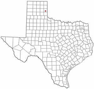 Map of Texas showing location of town of Shamrock